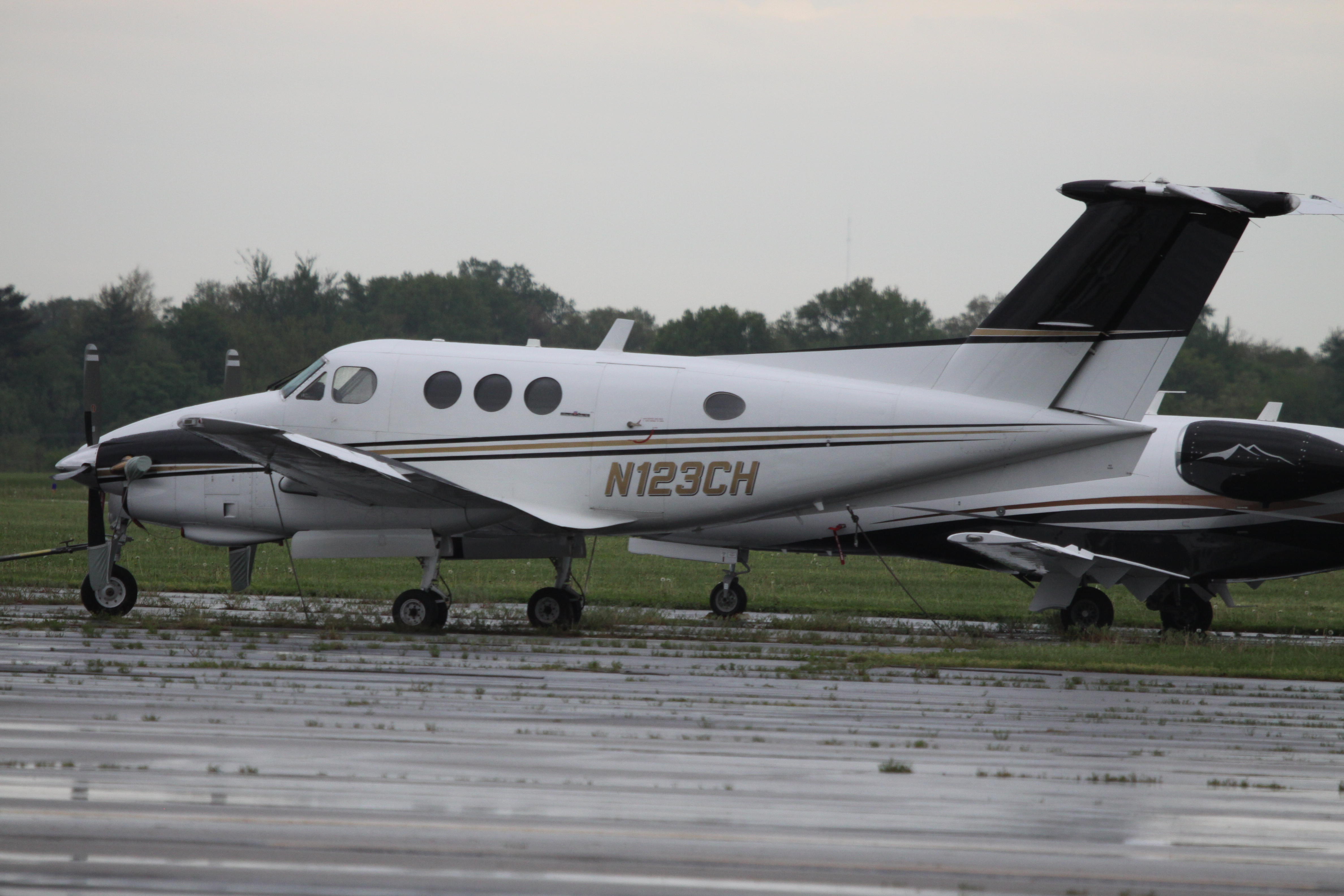 At Bowman Field Louisville, KY